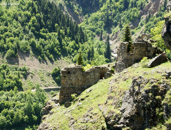 Parekhi monastery